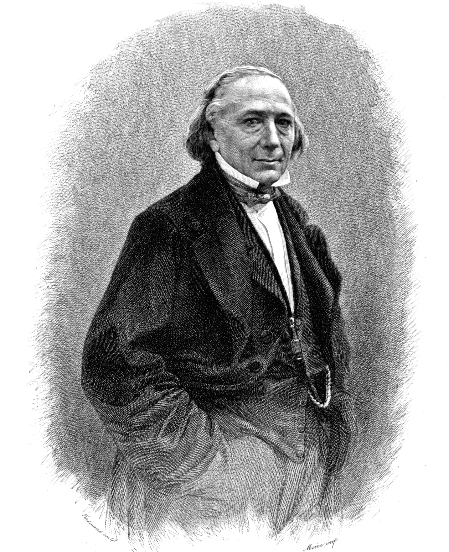 French lithographer, caricaturist and editor Charles Philipon.